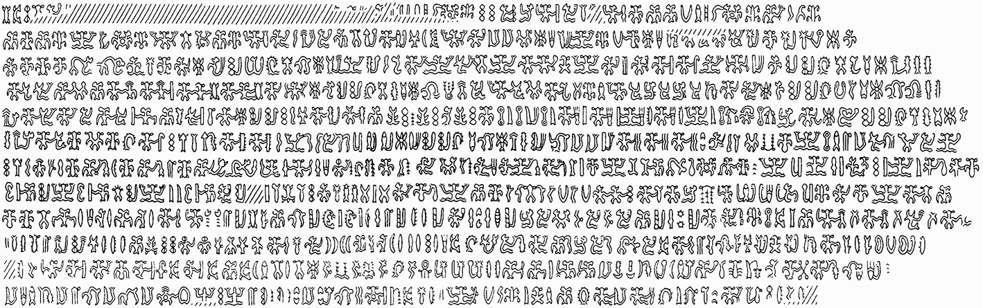 Barthel's tracing of rongorongo tablet H, verso